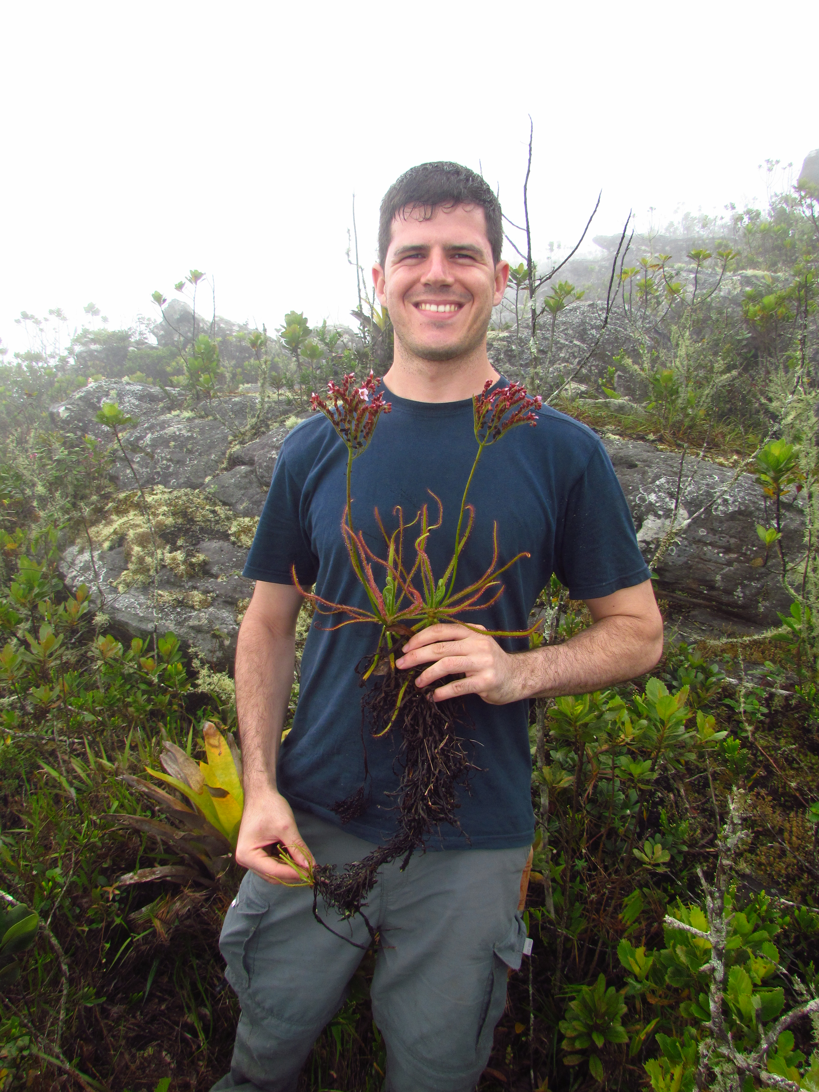 Drosera magnifica - Brazil - Paulo Gonella